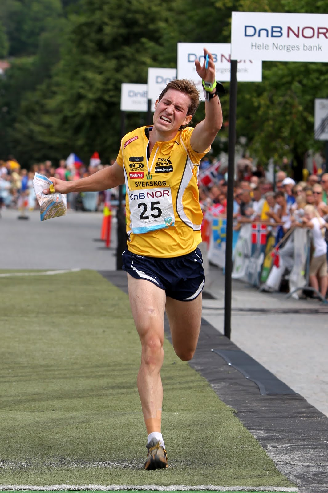 Martin Johansson at World Orienteering Championships 2010 in Trondheim, Norway